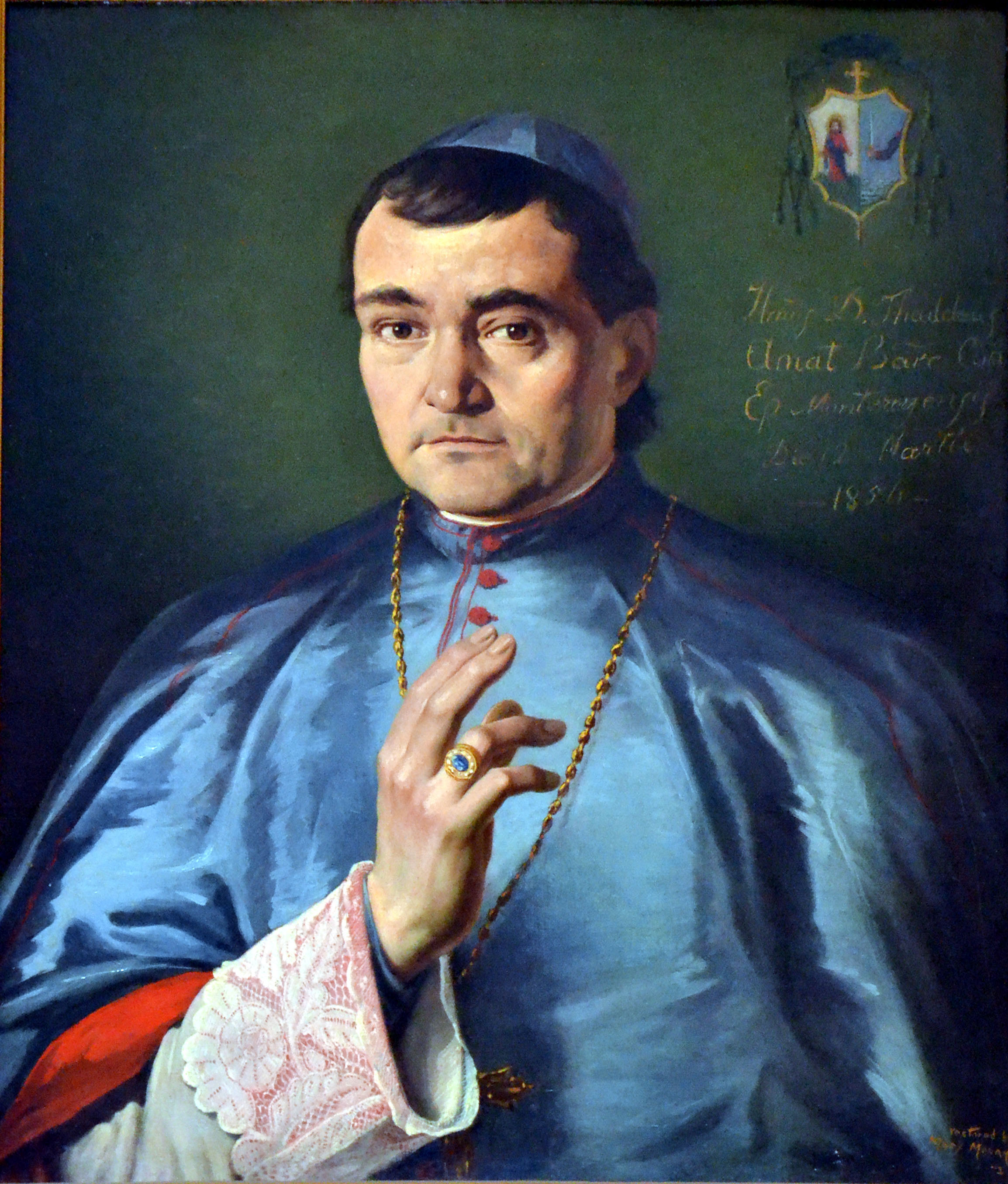 Thaddeus Amat y Brusi, C.M. (Catalan: Tadeu Amat i Brusi), was a Roman Catholic cleric who became the first Bishop of Los Angeles, California, in the United States. Photo of painting at San Fernando Mission.